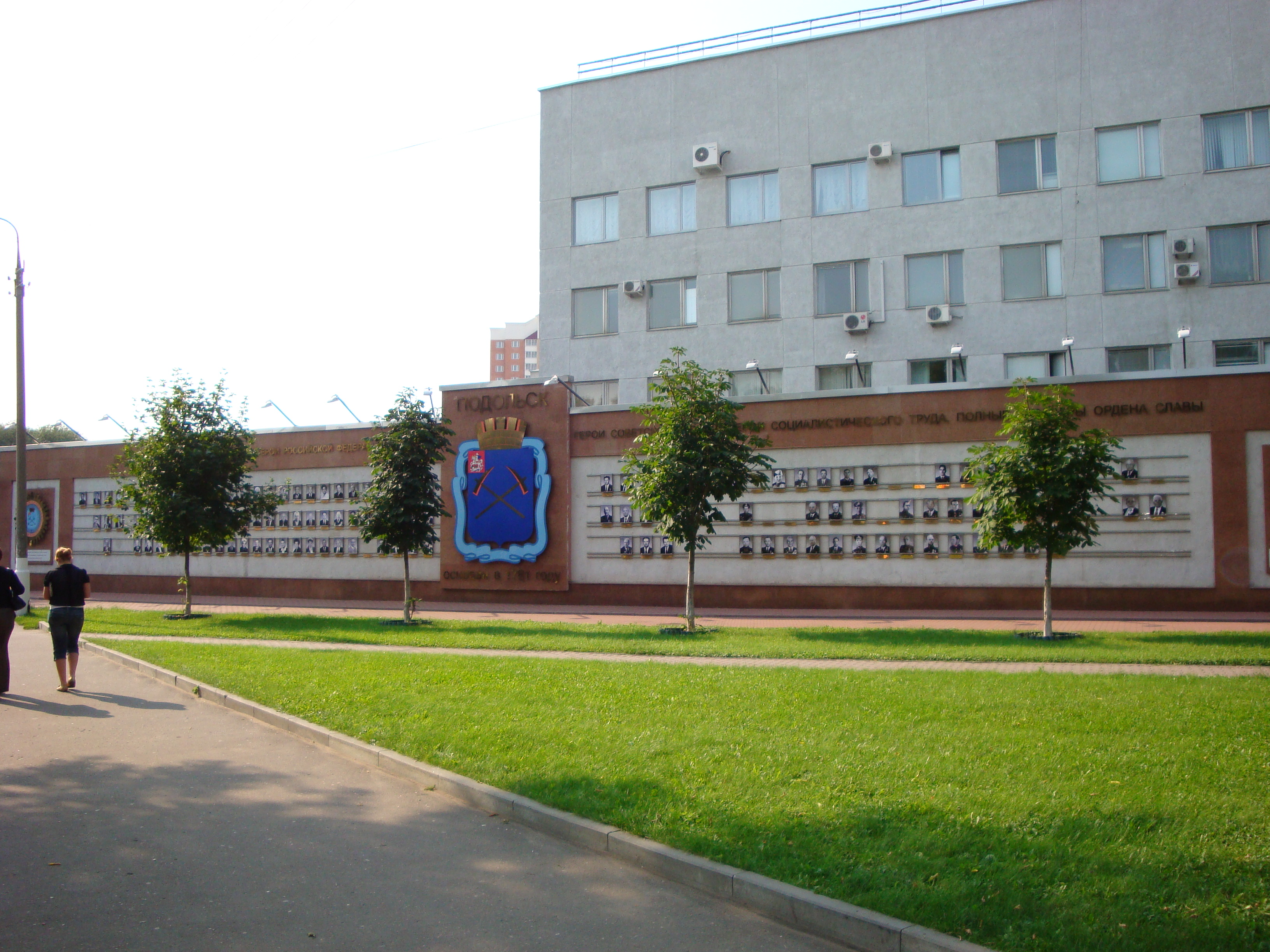 Honors Board of Podolsk (Moscow oblast)